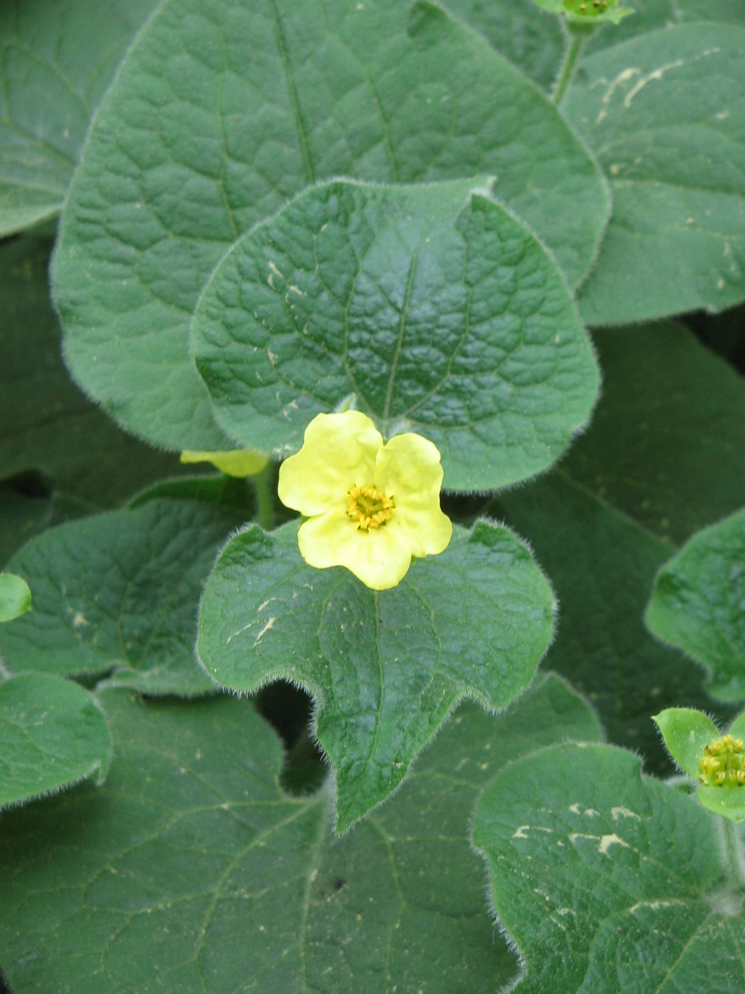 Saruma henryi